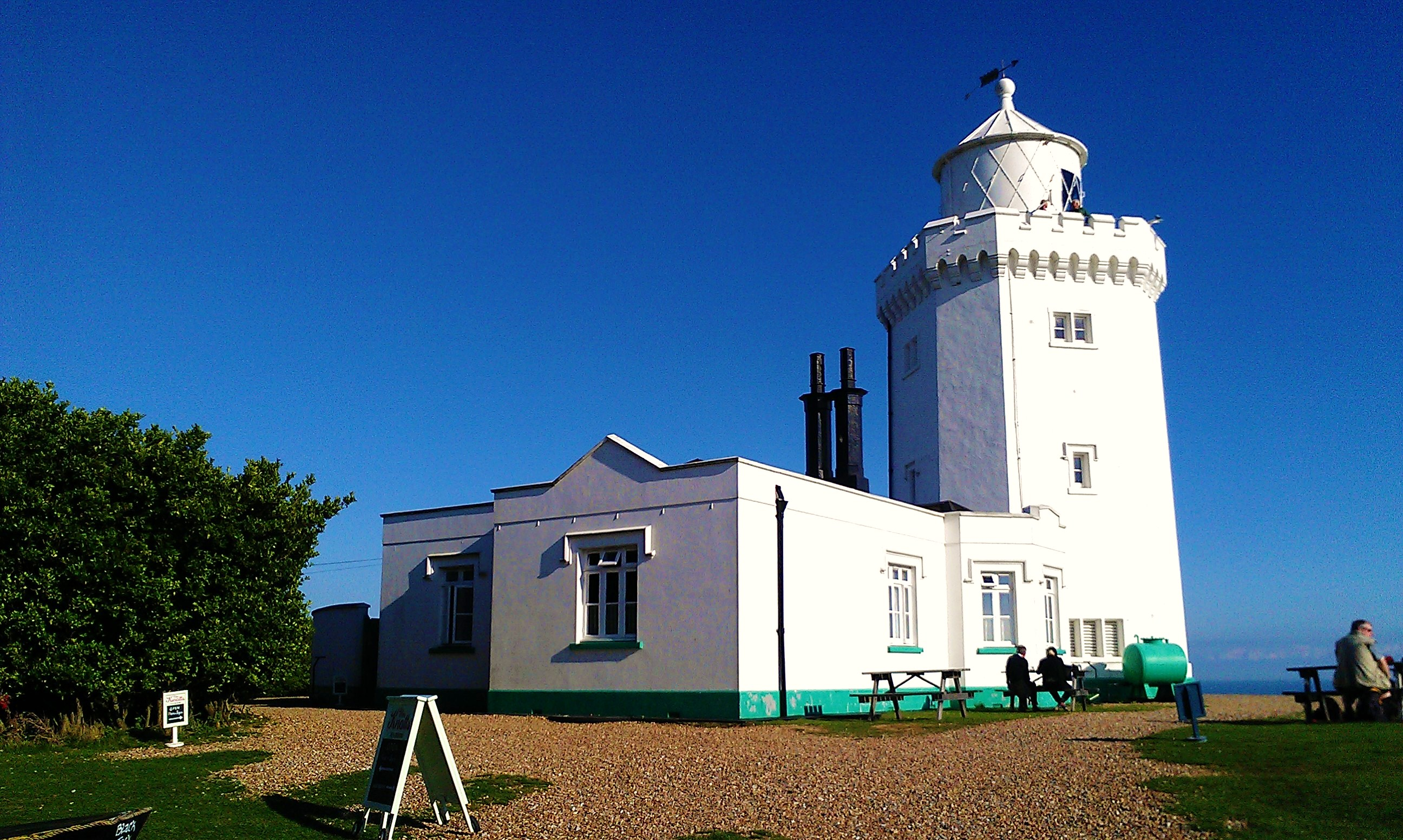 The back of South Foreland Lighthouse atop the White Cliffs of Dover near to Dover, Kent, in south-east England.